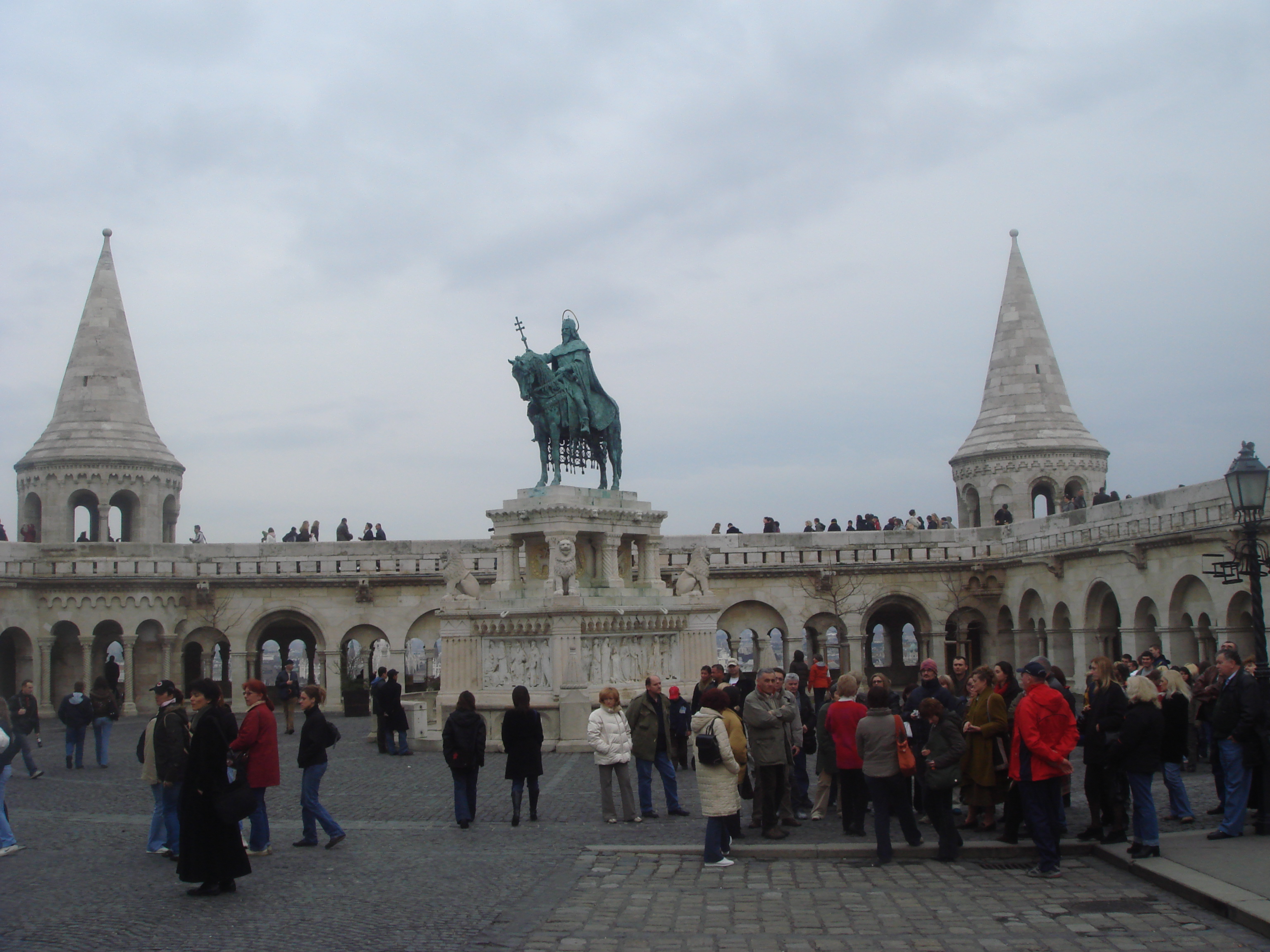 Fisherman's Bastion in Budapest